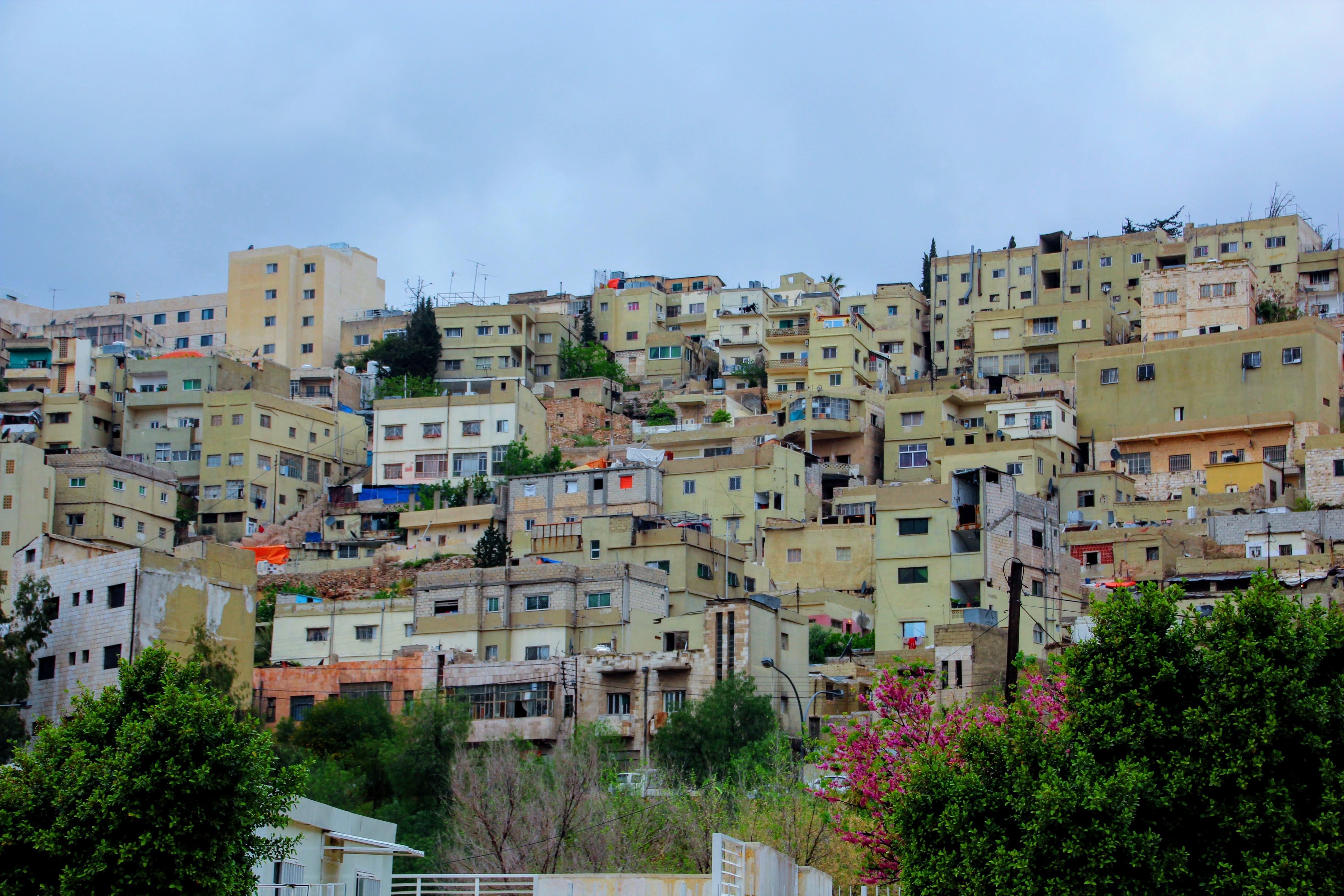 Hillside houses in central Amman, Jordan, as seen from the Jordan Museum